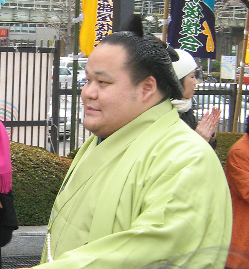 This is a photograph I took at a recent sumo tournament that I release the rights of. User:FourTildes 10:32, 31 May 2008 . . FourTildes . . 830×897 (350 KB)